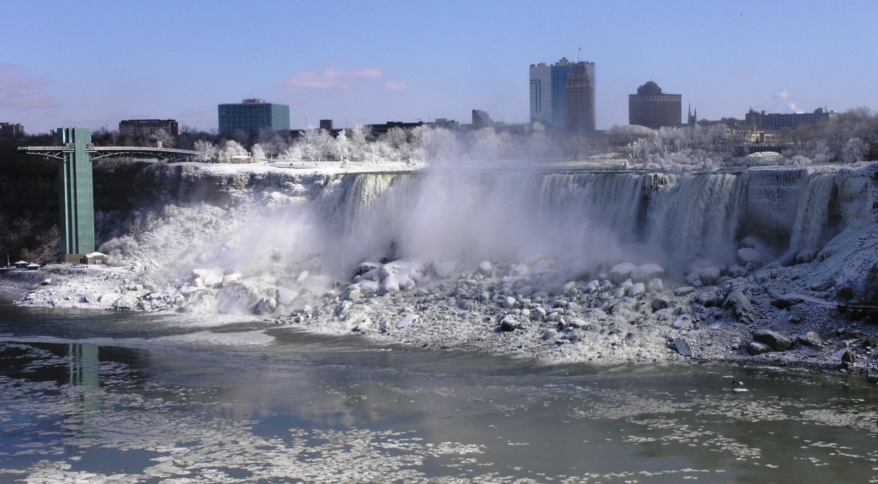 Taken by Daniel Mayer in late February 2006.